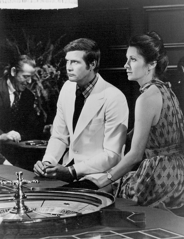 Photo of Lee Majors and Elizabeth Ashley from the televison program The Six Million Dollar Man.